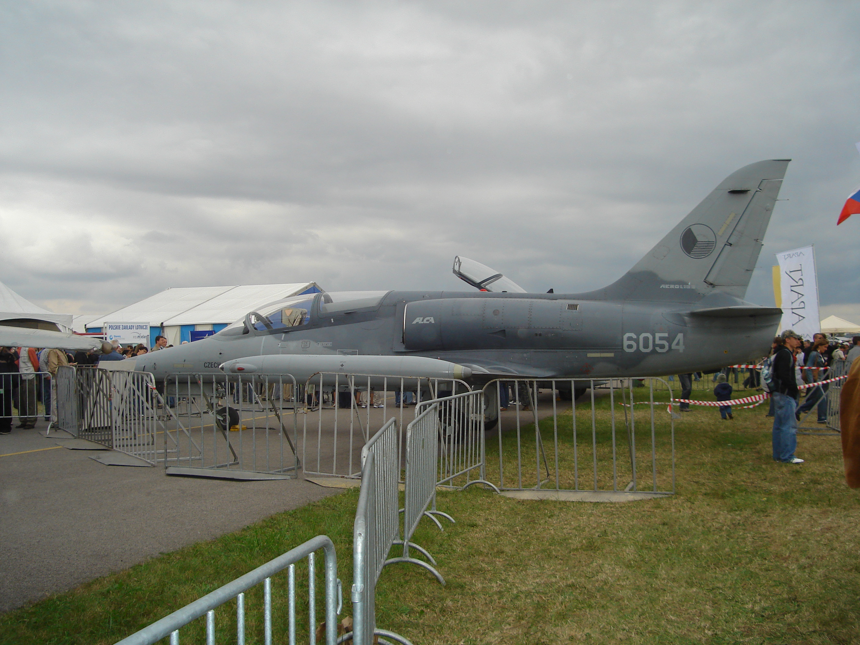 Picture of Aero L-159 Alca, Radom Air Show 2007